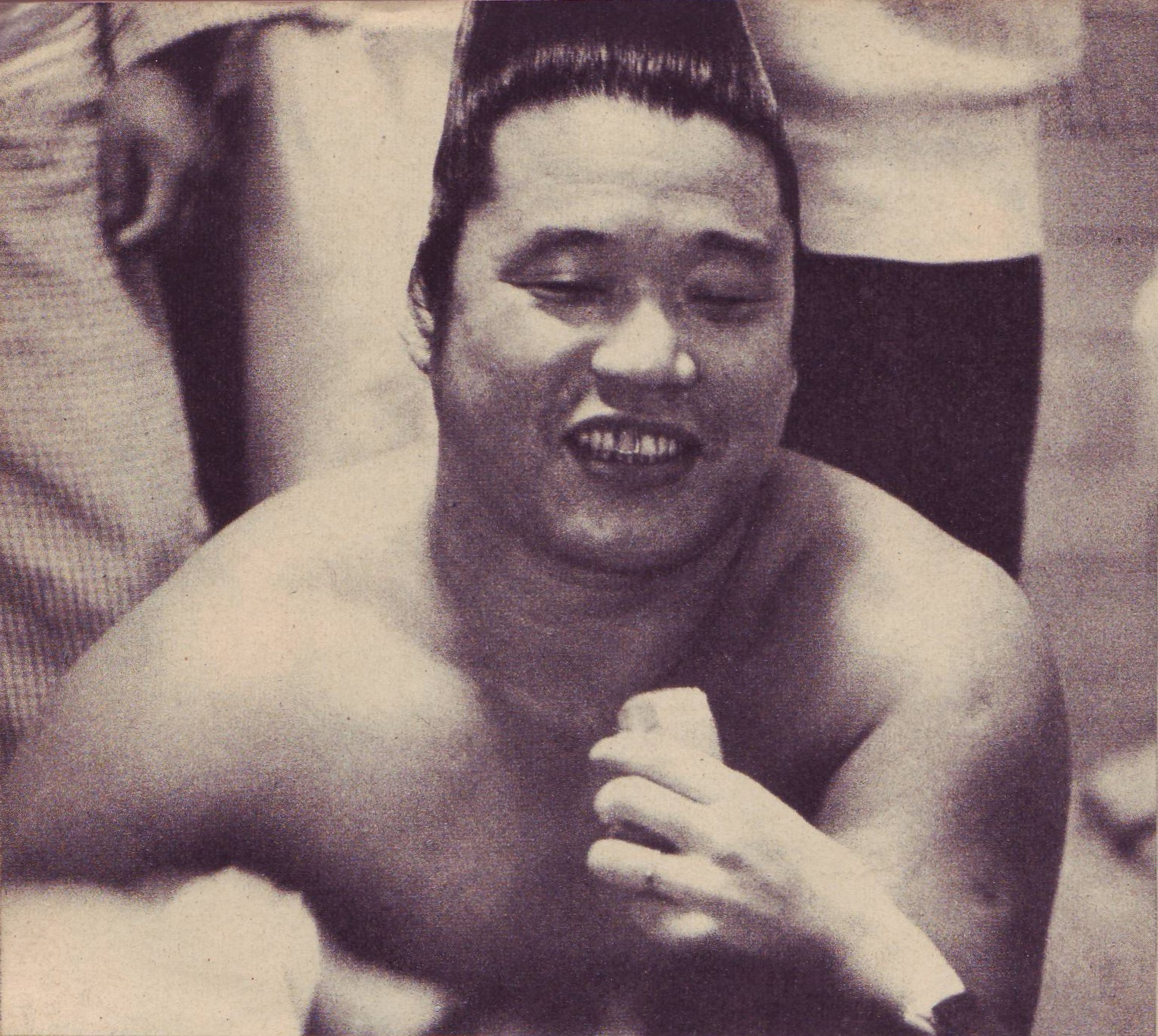 Tamanoumi Daisaburō (Sekiwake. taken in 1959, or before that).